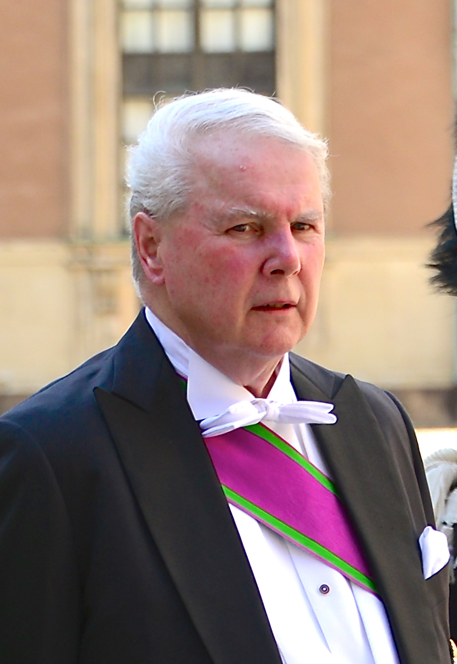 The Princess of Sayn-Wittgenstein-Berleburg and the Prince of Saxe-Coburg-Gotha on the way to the castle church at the Royal Palace in Stockholm before the wedding between Princess Madeleine and Christopher O'Neill June 8, 2013.